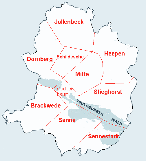 Map of the urban areas in Bielefeld created by myself